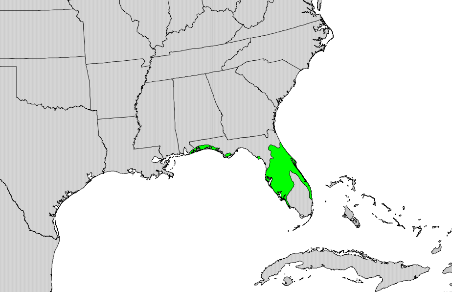 Range map of Pinus clausa